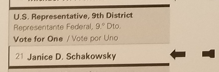 Blank Illinois primary ballot